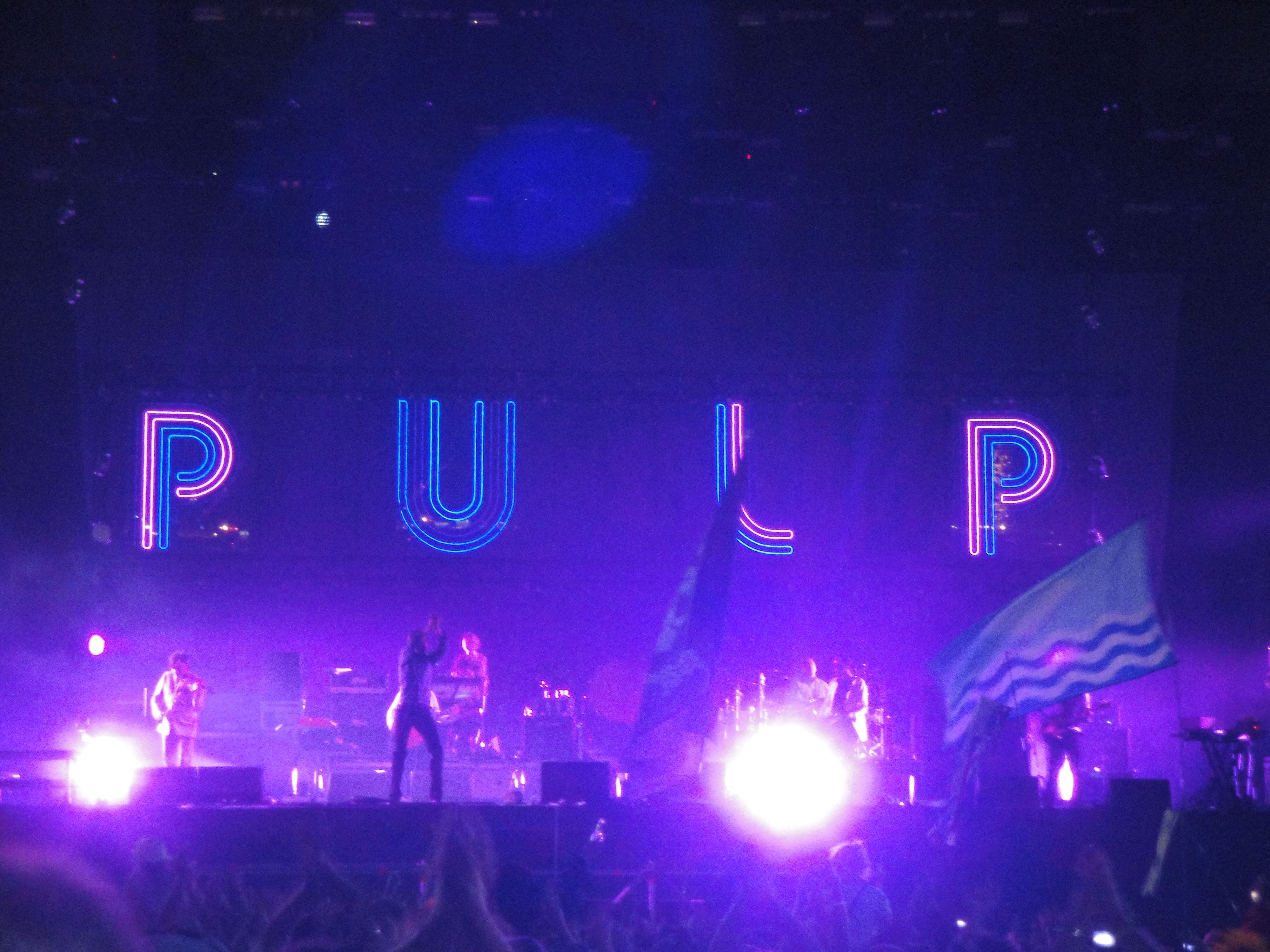 Pulp, performing at the Isle of Wight Festival 2011, held in Seaclose Park, Newport, Isle of Wight.